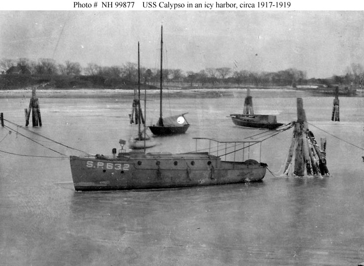 The United States Navy patrol vessel tied up in an icy harbor.